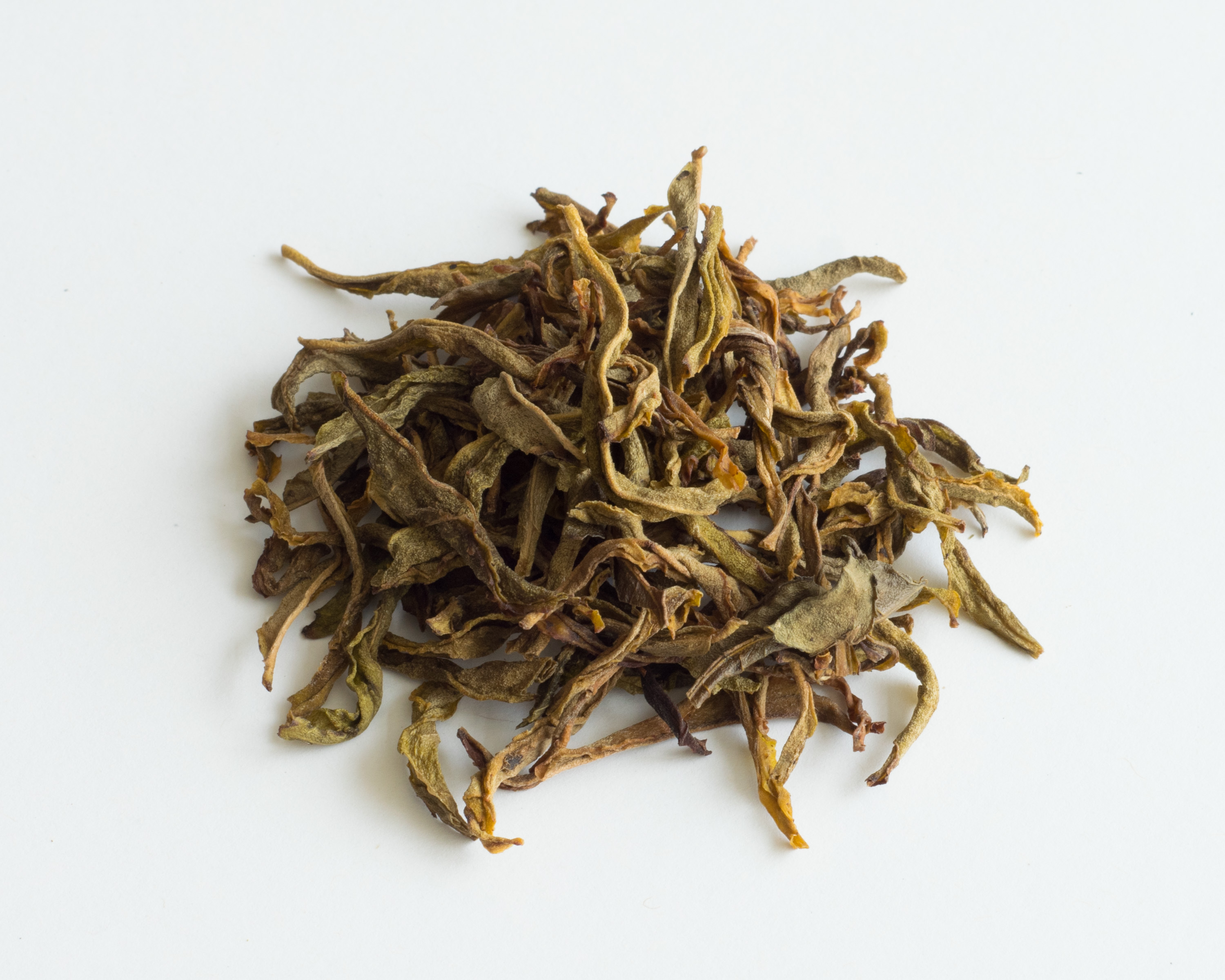 Bai Jiguan oolong tea grown in the Wuyi region of Fujian, China.